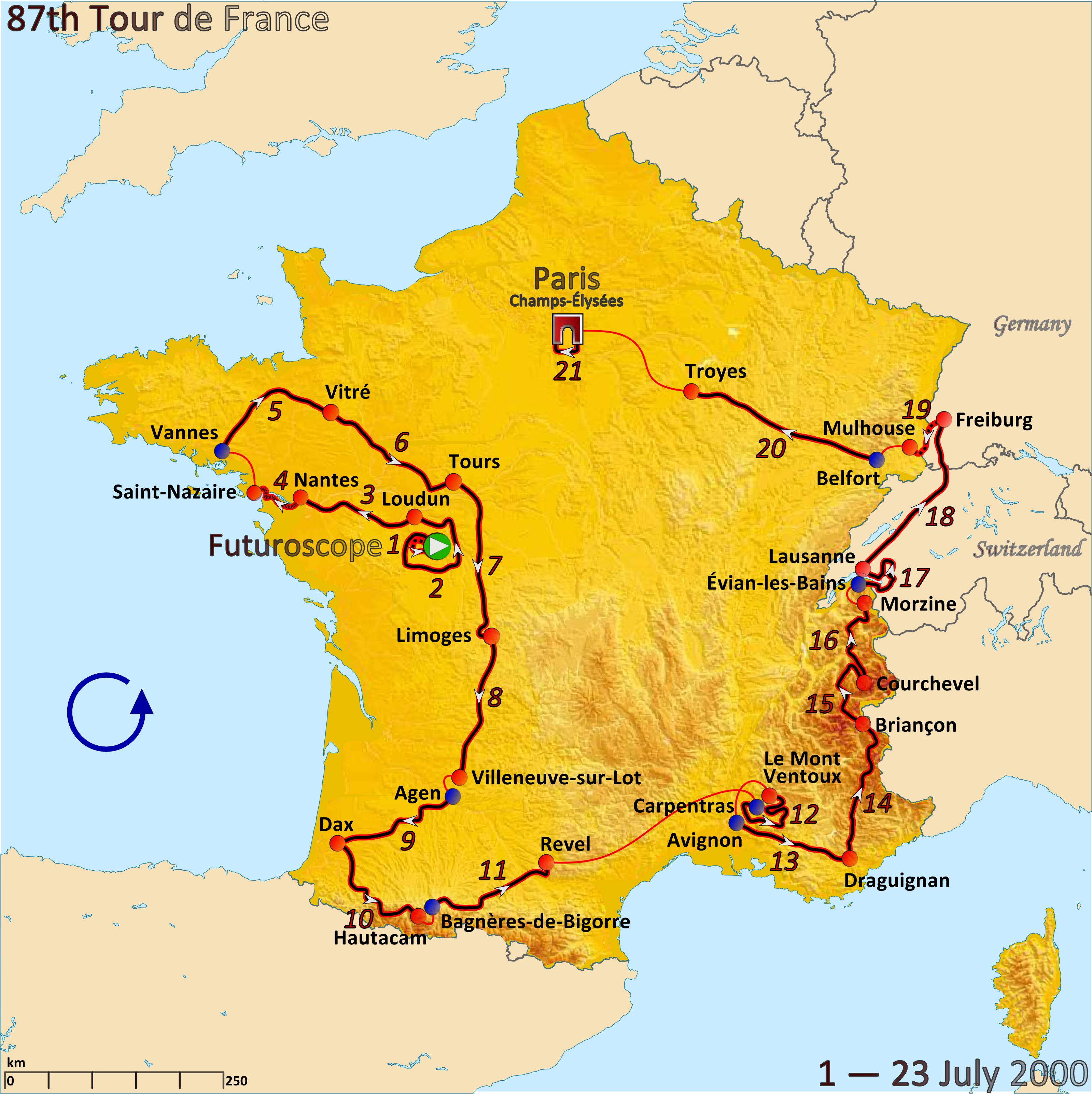 Map of the 2000 Tour de France created in Inkscape